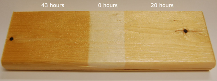 A 1" x 3" x 7" pine board, finished with a UV cure resin (not sanded), then exposed to various time exposures of UVA (primarily 370nm +/-10nm, less than 3% UVB at 312-315nm). Left side was exposed 43 hours, center band was shielded and received no UVA except to cure the finish, the right side was exposed for 20 hours. Exposure done with 4 SunMaster Curall UV resin curing lamp (F32T8 reflector lamp powered at 50 watts. Total UV at surface (as measured with a UVA/B meter) was approximately 15 mW/cm2 for the duration of the tests. Demonstrates the effects of ultraviolet on finished wood surfaces.